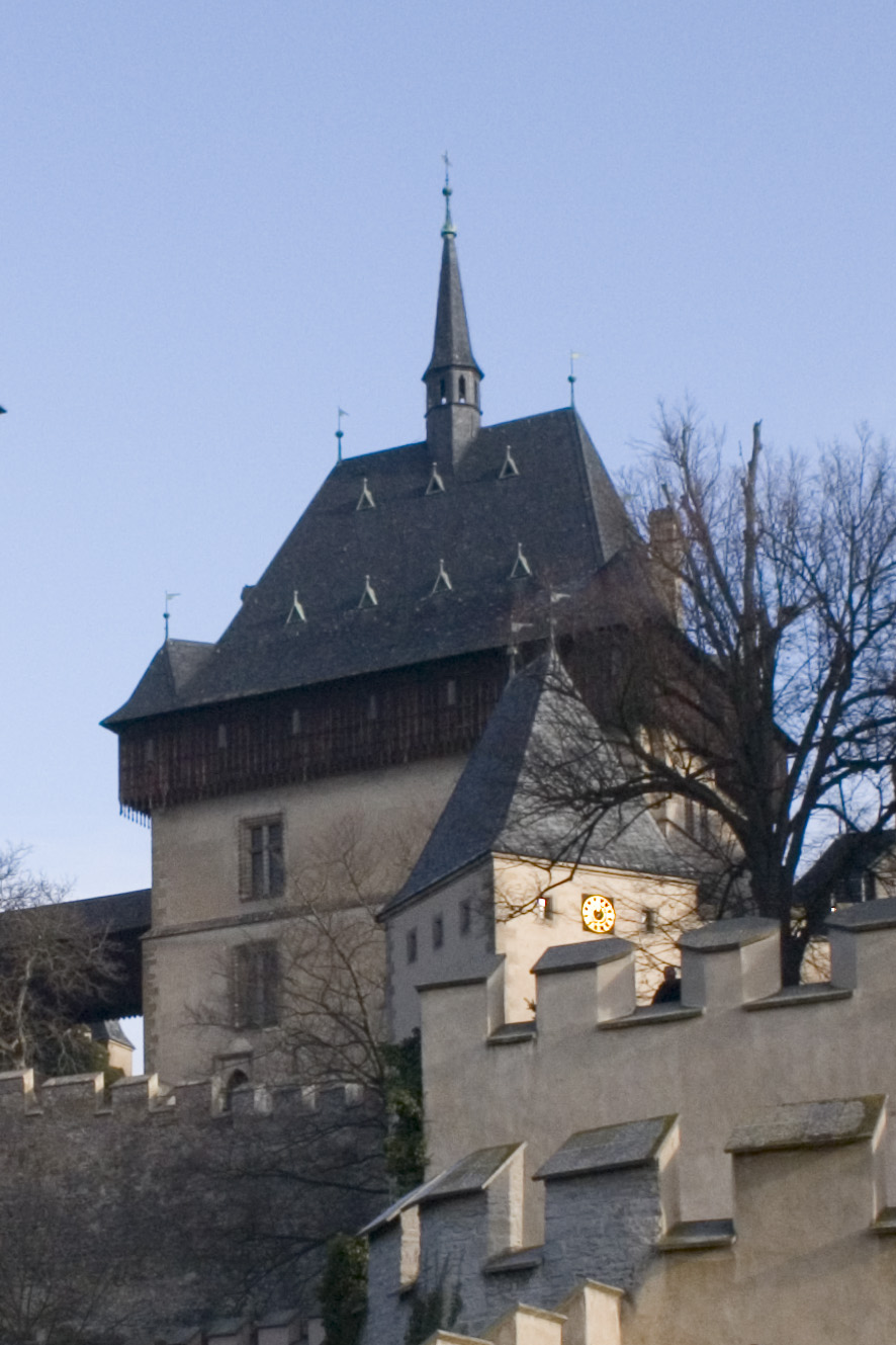 Photo of Karlštejn castle